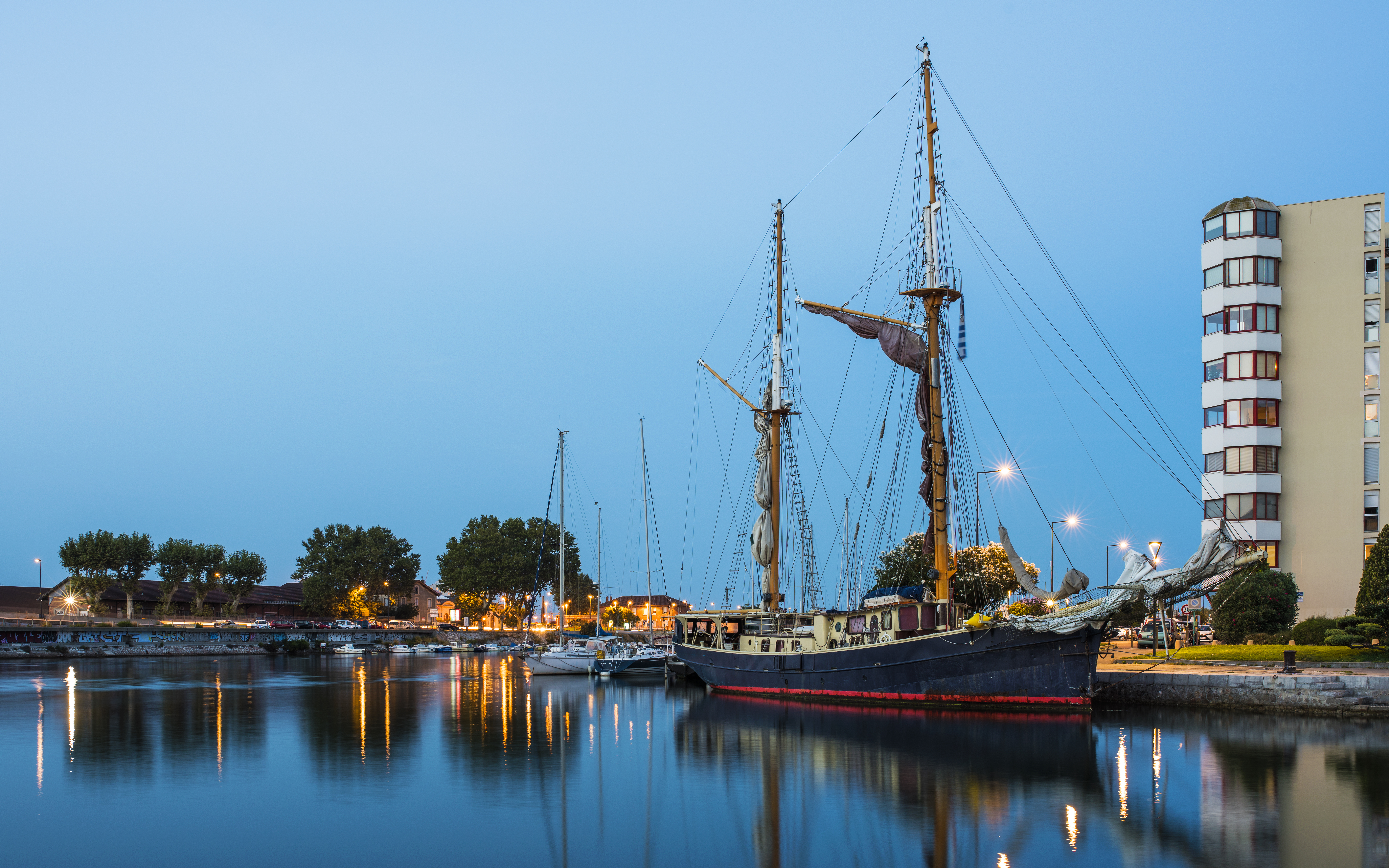 Amadeus (ship, 1910). This boat is a former Dutch cod fishing boat and now has the french label Bateau d'intérêt patrimonial (BIP). Sète, Hérault, France.